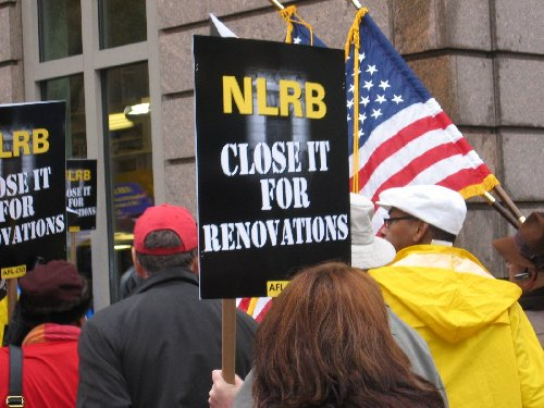 Union members picketing outside the National Labor Relations Board offices in Washington, D.C., in November 2007